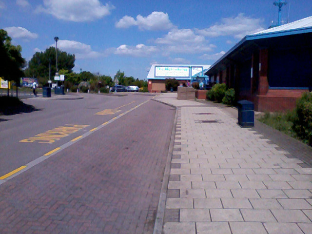 Metrodome Leisure Centre, Barnsley